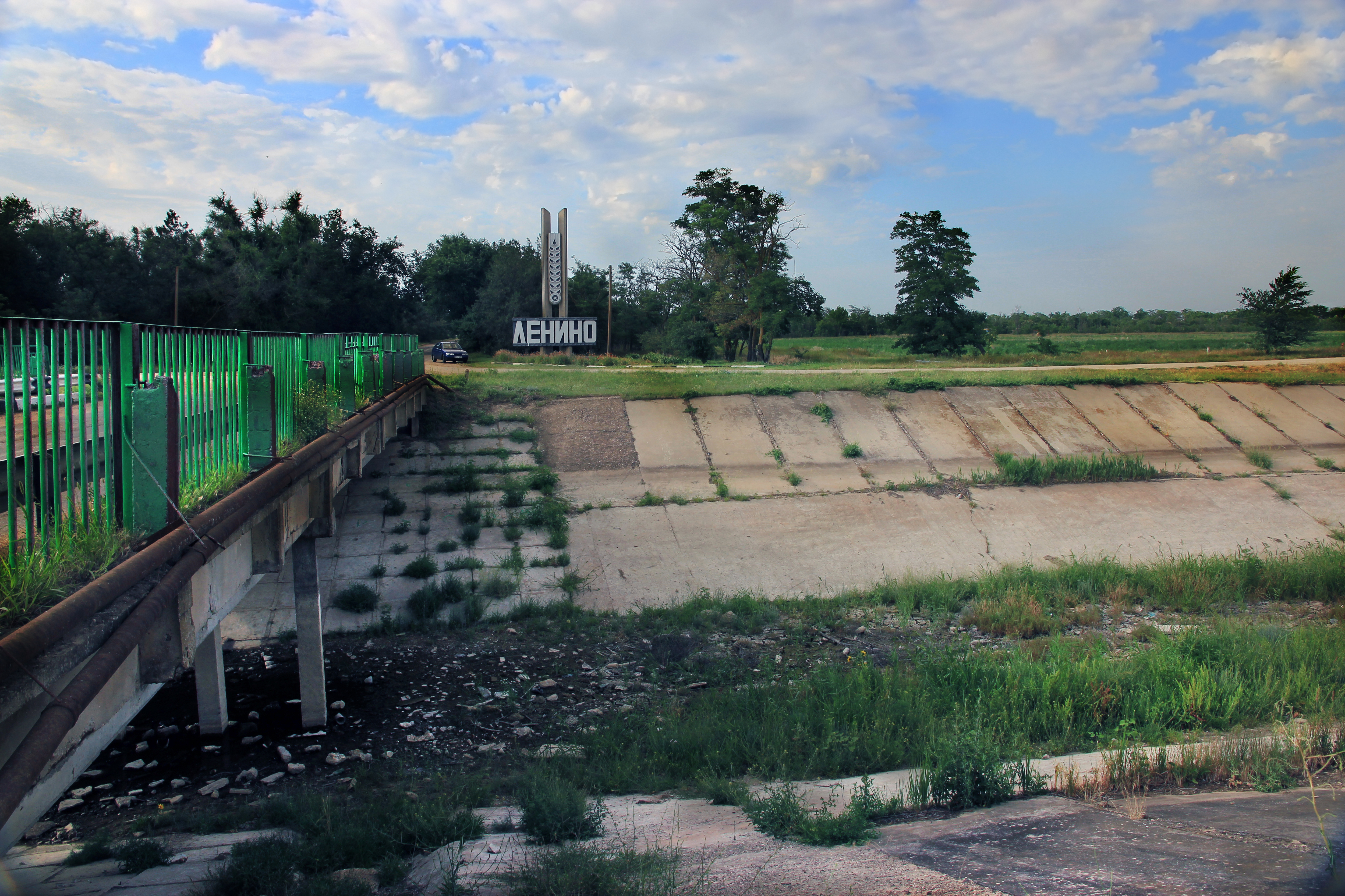 Crimean Canal closed the Ukrainian government with the April 26, 2014